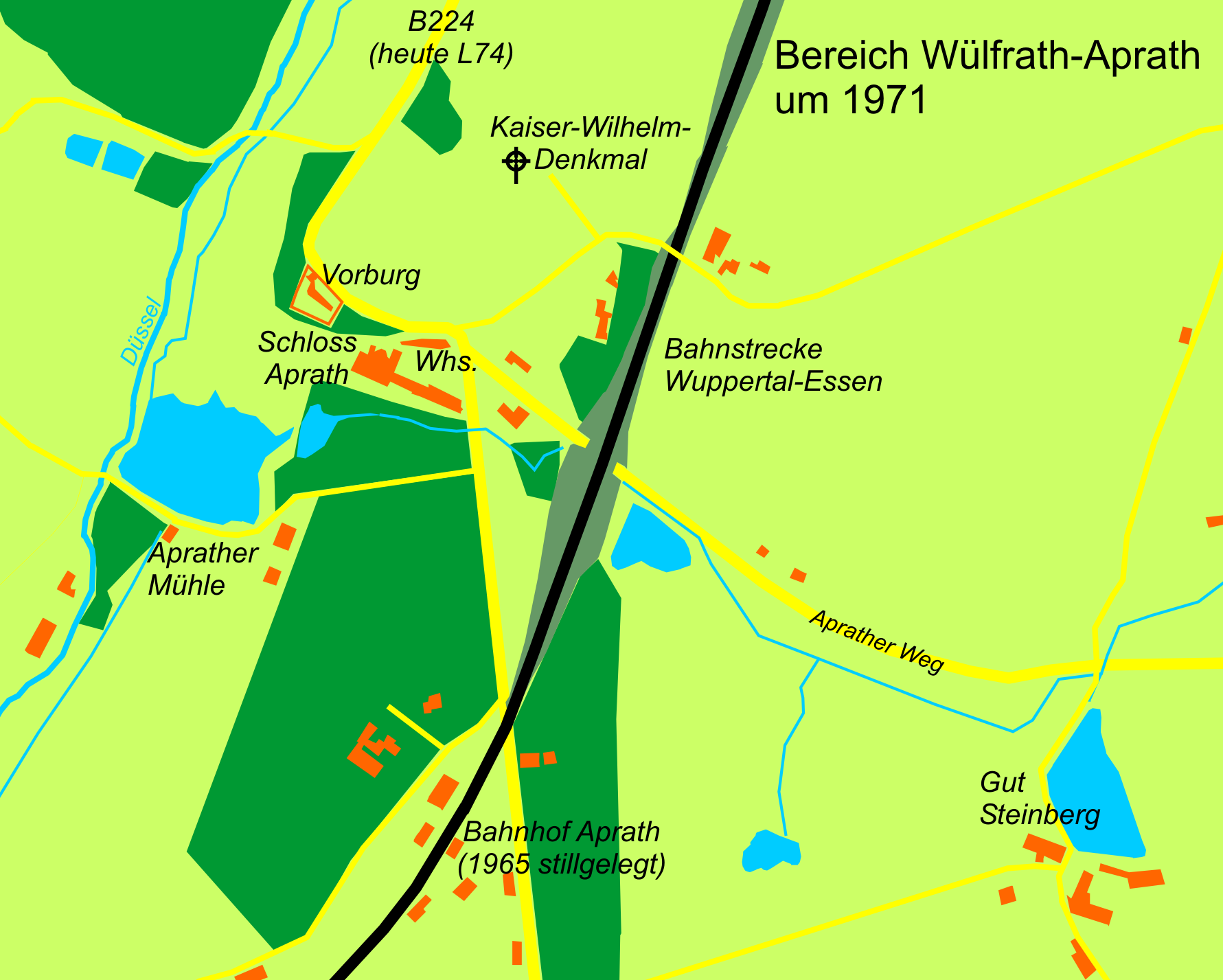 Map of Wülfrath-Aprath, Germany in the year 1971